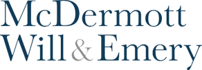 Logo of McDermott Will & Emery